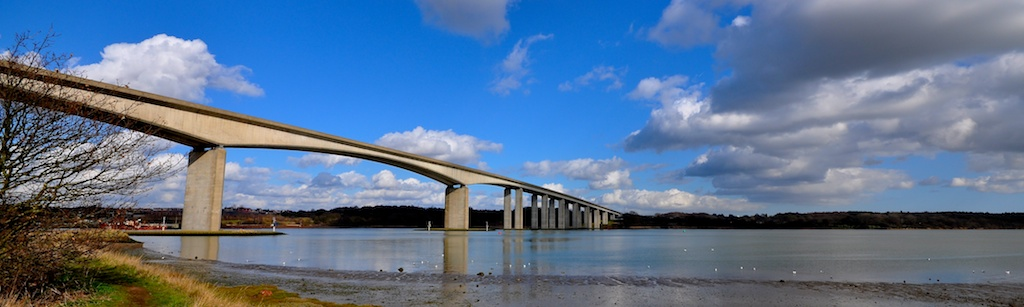 Under the bridge and by the river.